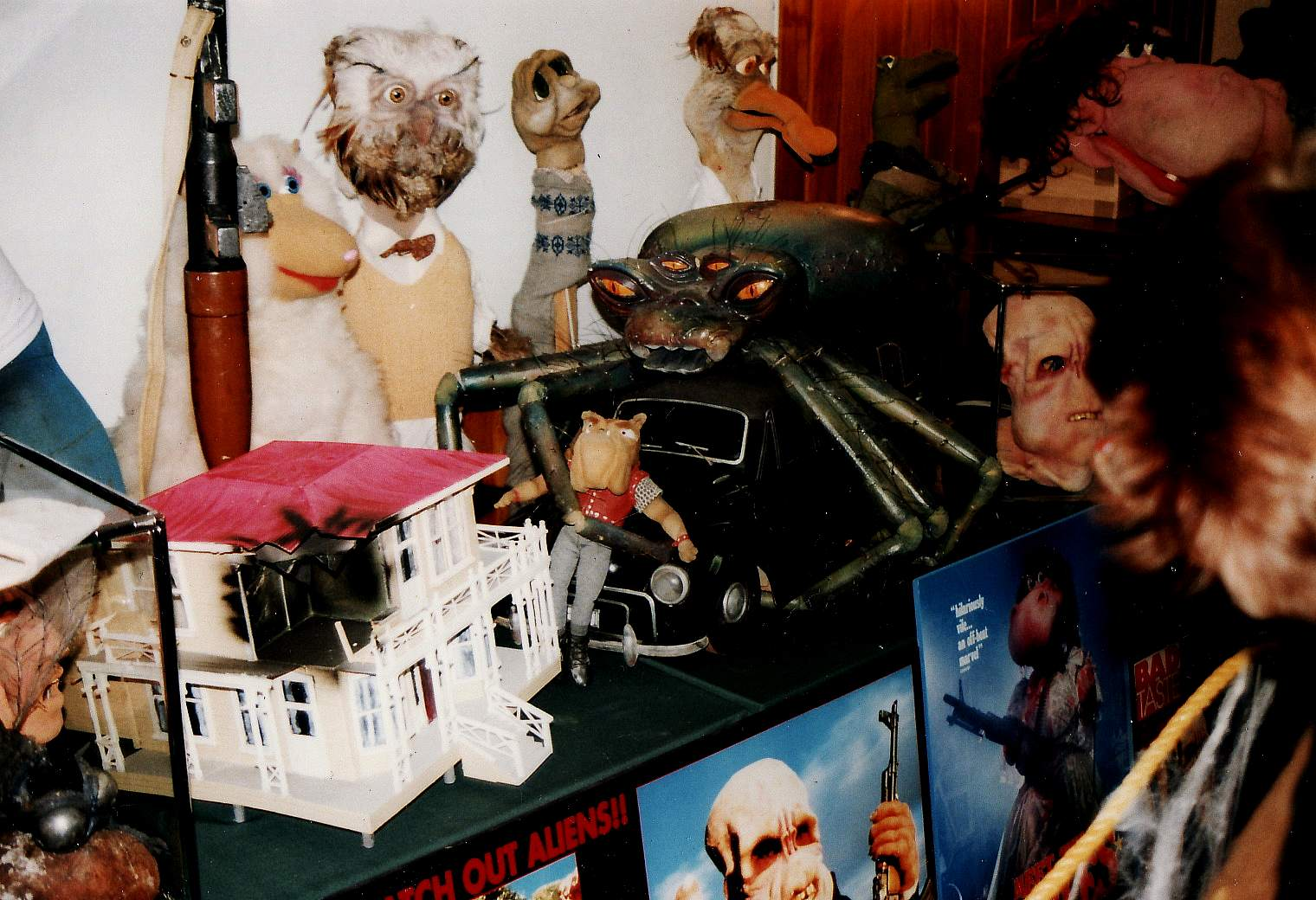 A public display of Richard Taylors Work at a Forrest Ackerman Convention, Brentwood Hotel Lobby Wellington New Zealand